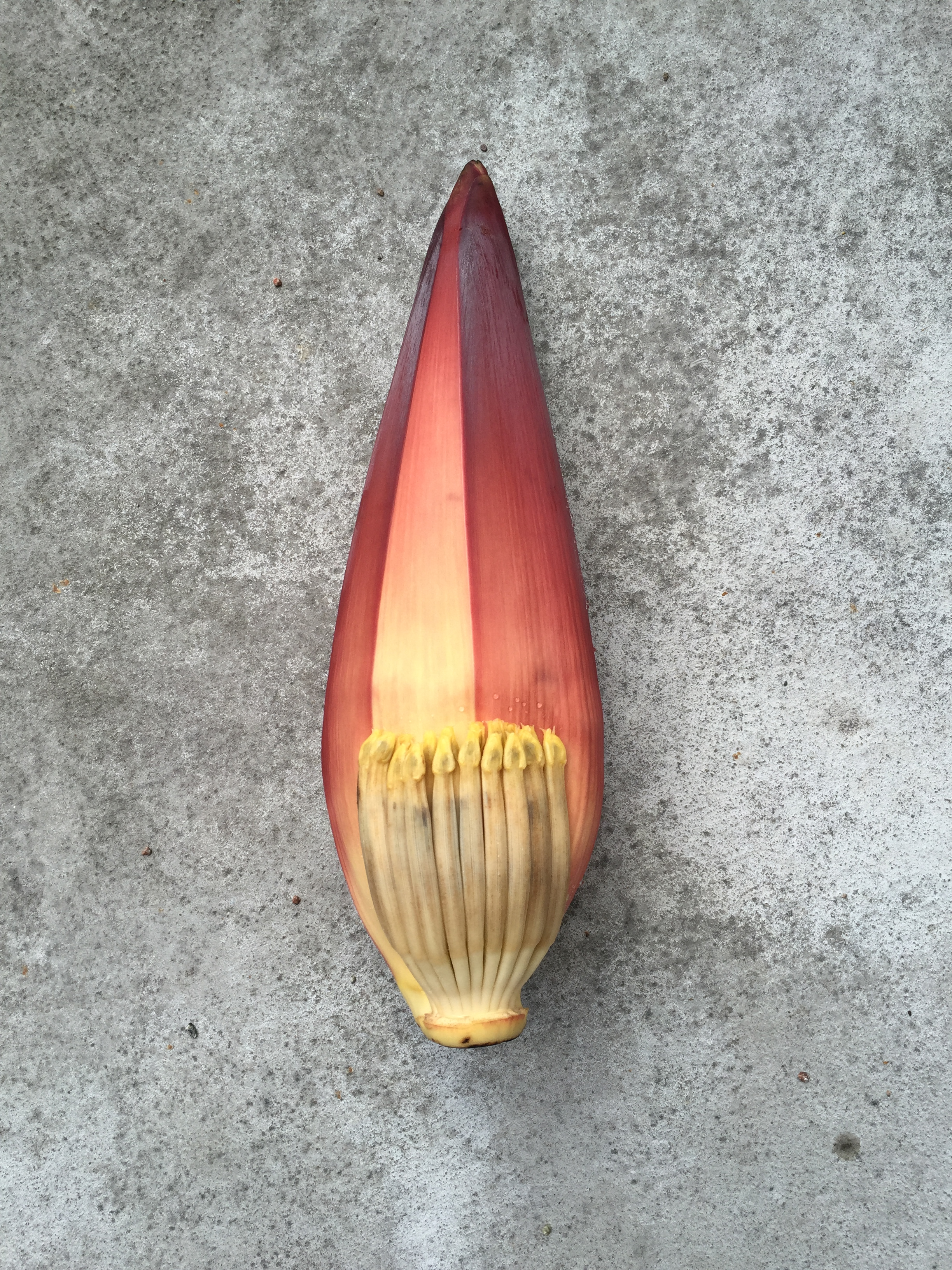 A Banana blossom